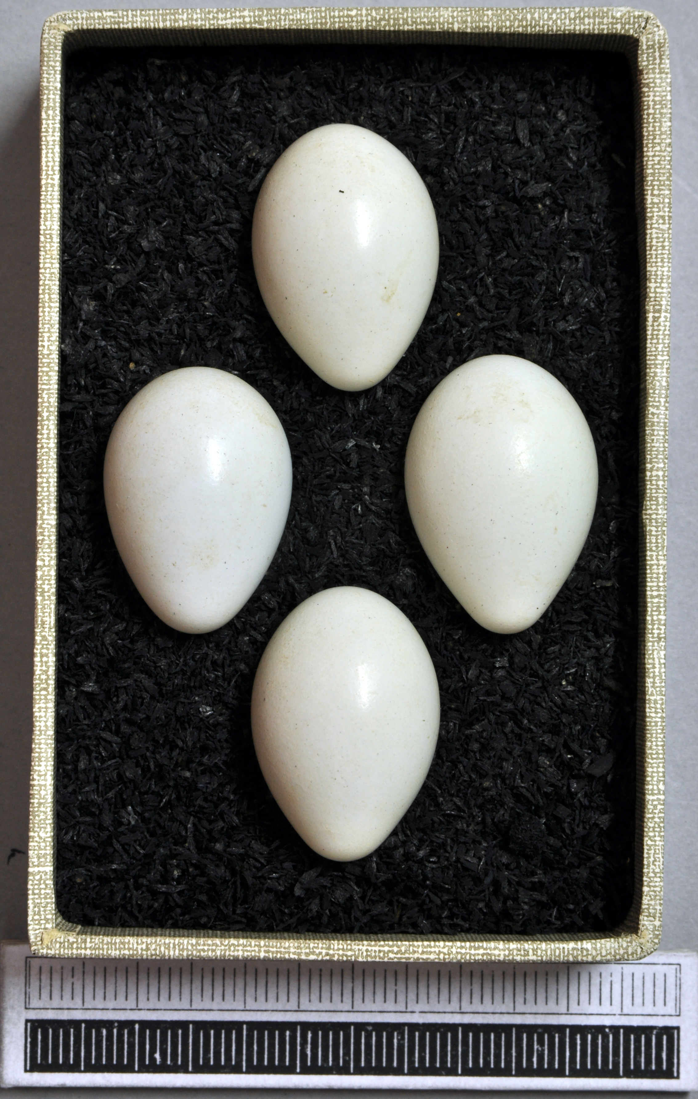 Isabelline wheatear Oenanthe isabellina , egg, Coll. Museum Wiesbaden